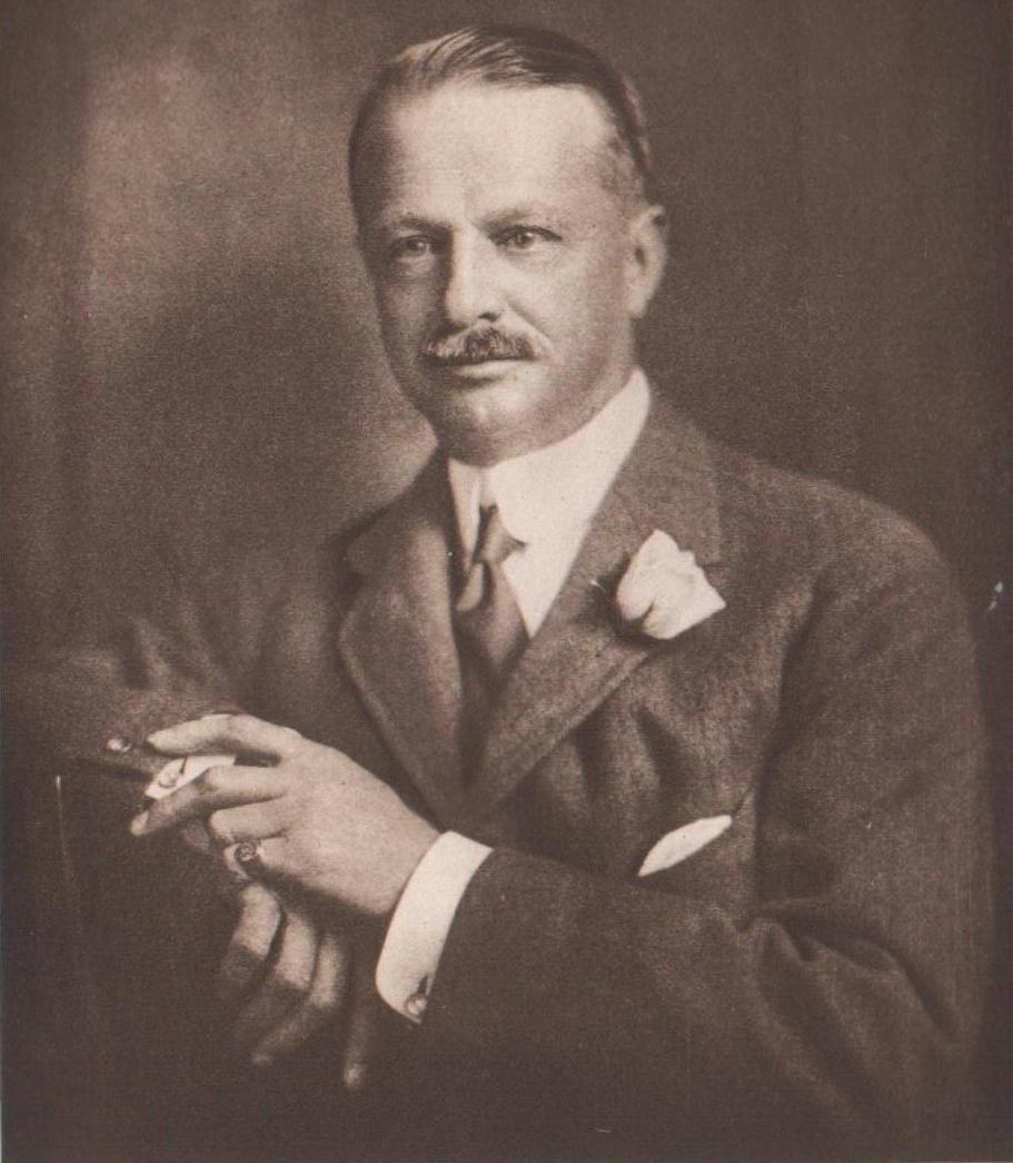 Photographic portrait of Boston businessman and United States diplomat George von Lengerke Meyer